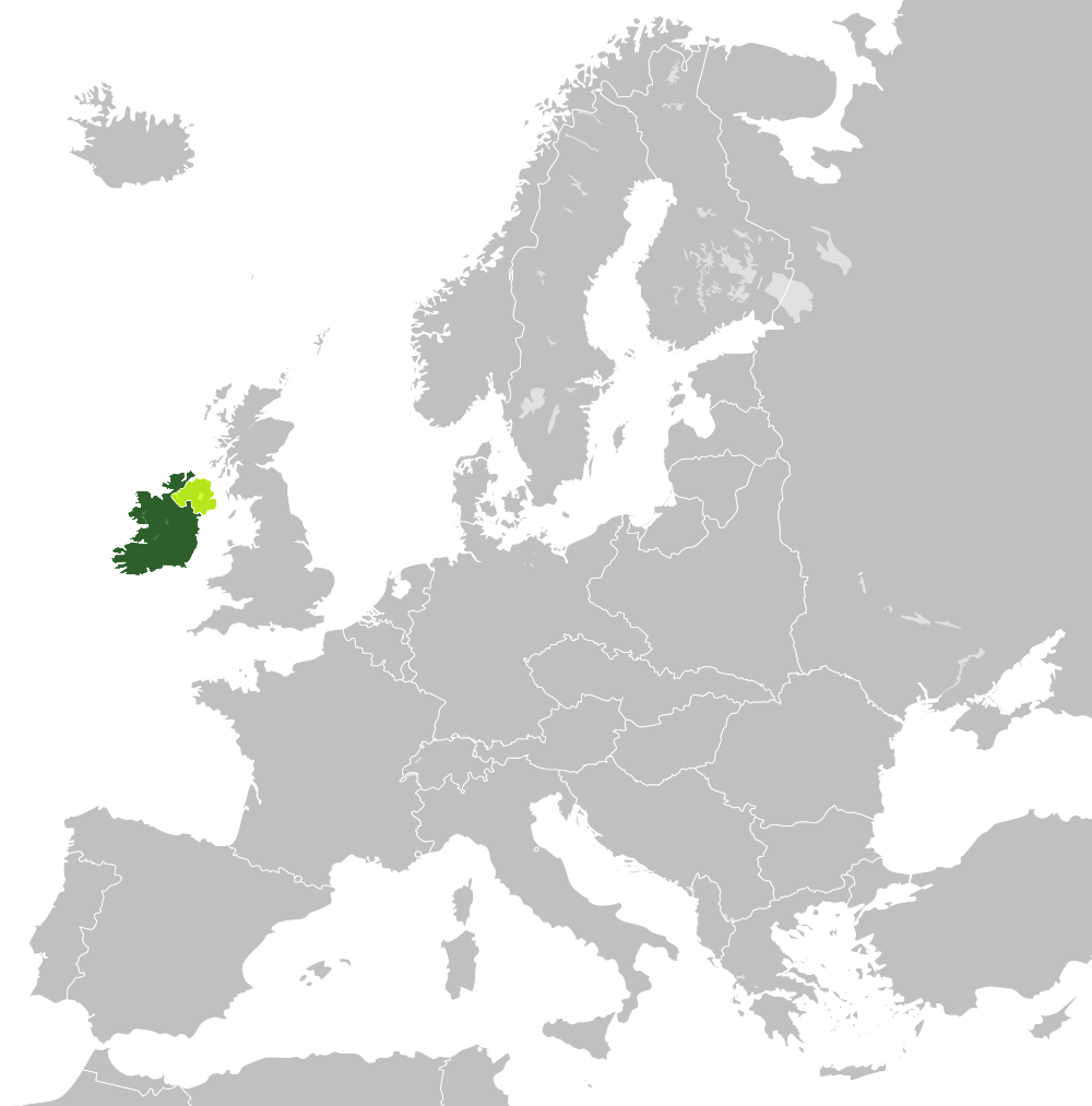 Own Work, based on File:Blank_map_of_Europe_1929-1938.svg